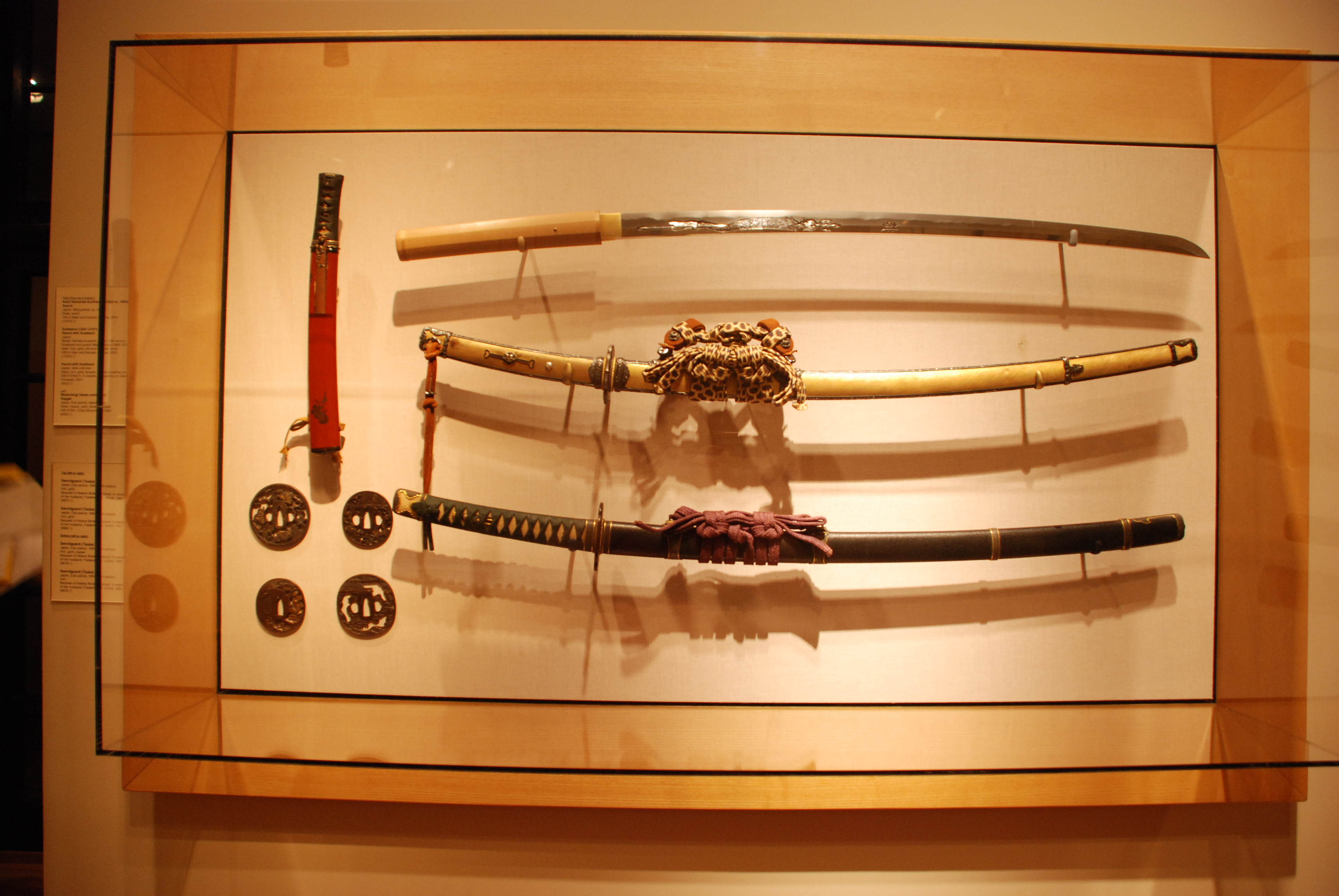 Kenji Nobuhide Kurihara (active ca. 1880s) Sword Japan, Meiji period, ca. 1880 Steel, wood Gift of Allen and Nobuko Zecha, 2004 (13072.1) Sukezane (1204-1316) Sword with Scabbard Japan Blade: Kamakura period, early 14th century, steel Scabbard and guard, Meiji period (1868-1912); steel, iron, gold, silk and leather cords Gift of Allen and Nobuko Zecha, 2004 (13073.1) Sword with Scabbard Japan, date unknown Steel, iron, gold, lacquer, silk and leather cords Gift of Ethel A. Funasaki, in memory of Clarence Funasaki, 2001 (9532.1) Masanisugi (dates unknown) Dagger Japan, Edo period, dated 1849 Steel, copper, gold, silver, lacquer Gift of Mrs. Chiya Miyamoto, 1990 (6050.1) Swordguard (Tsuba) Japan, Edo period, 18th-19th century Iron, gold Bequest of Helene Wolters Scholl, in memory of her husband, Frederick W. Scholl, 1991 (6675.1) Swordguard (Tsuba) Japan, Edo period, 18th-19th century Iron, gold Bequest of Helene Wolters Scholl, in memory of her husband, Frederick W. Scholl, 1991 (6680.1) Swordguard (Tsuba) Japan, Edo period, 18th-19th century Iron, gold, copper Bequest of Helene Wolters Scholl, in memory of her husband, Frederick W. Scholl, 1991 (6678.1) Swordguard (Tsuba) Japan, Edo period, 18th-19th century Iron Bequest of Helene Wolters Scholl, in memory of her husband, Frederick W. Scholl, 1991 (6676.1) Wikipedia Loves Art at the Honolulu Academy of Arts This photo of item # 1307.21 at the Honolulu Academy of Arts was contributed under the team name "Team_Yatta" as part of the Wikipedia Loves Art project in February 2009. Honolulu Academy of Arts The original photograph on Flickr was taken by keska86—please add a comment to the original Flickr page whenever a use has been made on Wikipedia or another project. Project galleries on Flickr: this institution, this team